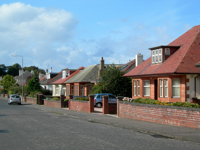 Bungalowland. Ewenfield Avenue, on the south side of Ayr